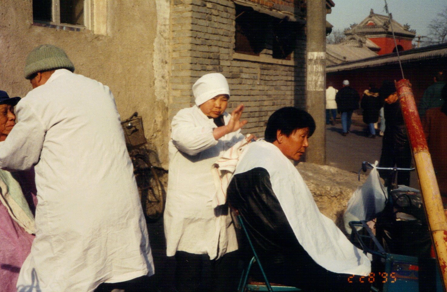 Beijing street barber, 1995